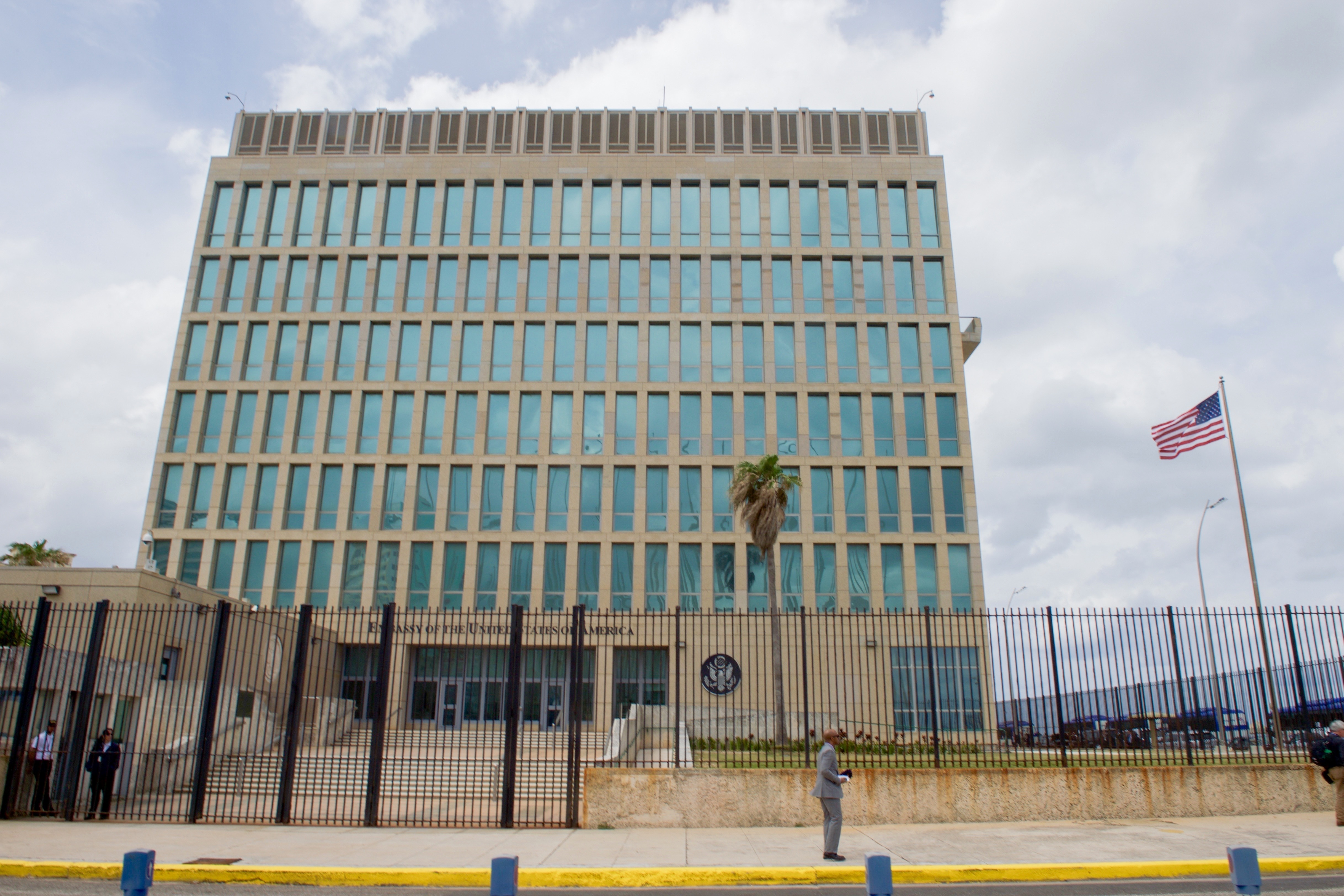 The U.S. flag flaps in the stiff breeze off the Florida Straits at the U.S. Embassy in Havana, Cuba, on March 22, 2016, as President Obama and U.S. Secretary of State John Kerry meet inside with members of Cuban civil society. [State Department photo/ Public Domain]